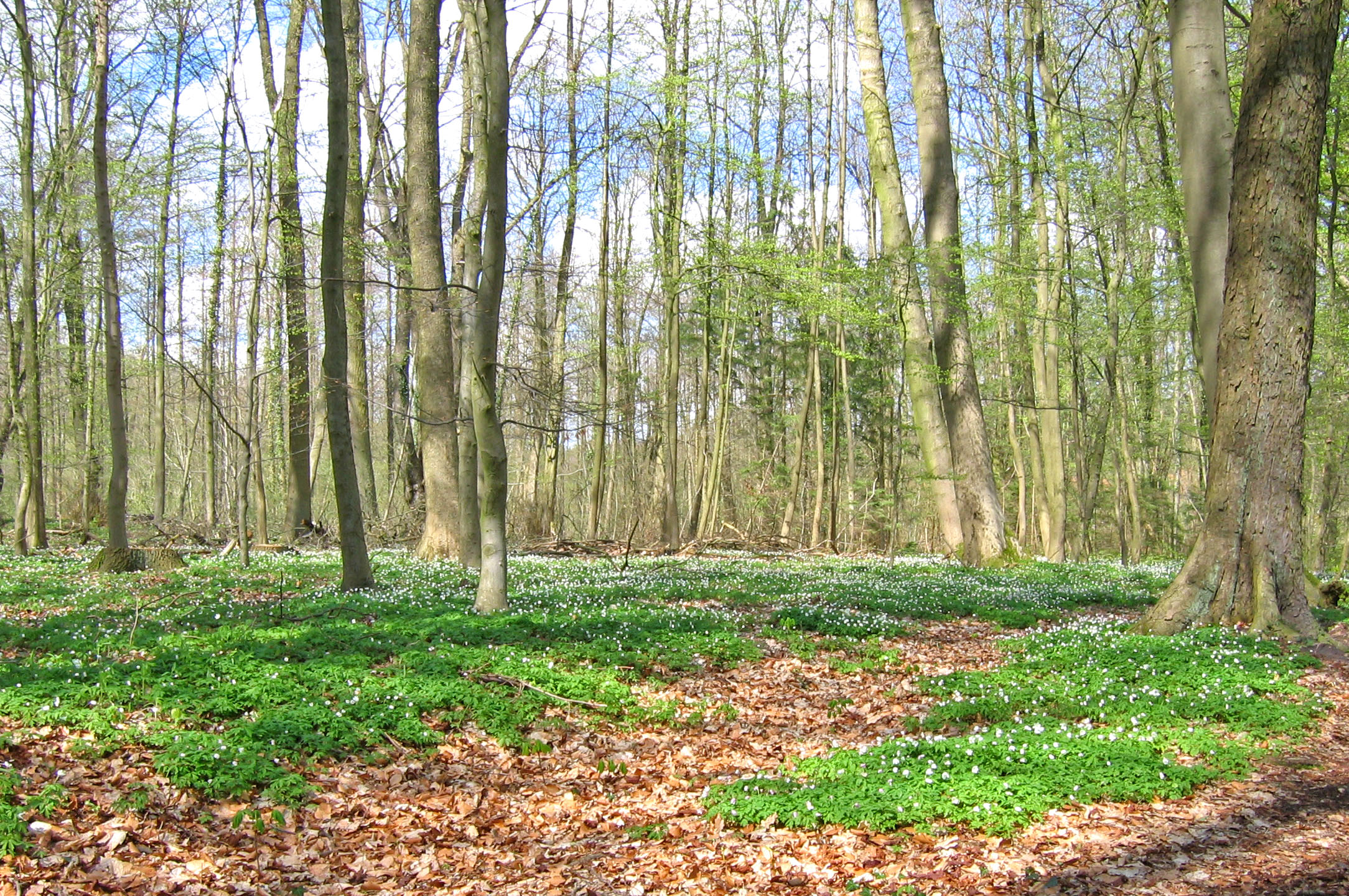 Way to the river Aue with lots of Anemone nemorosa, Spring 2006 - Weg ins Auetal in Bliedersdorf, Buschwindröschen-Blütenteppich (Anemone nemorosa), Frühjahr 2006